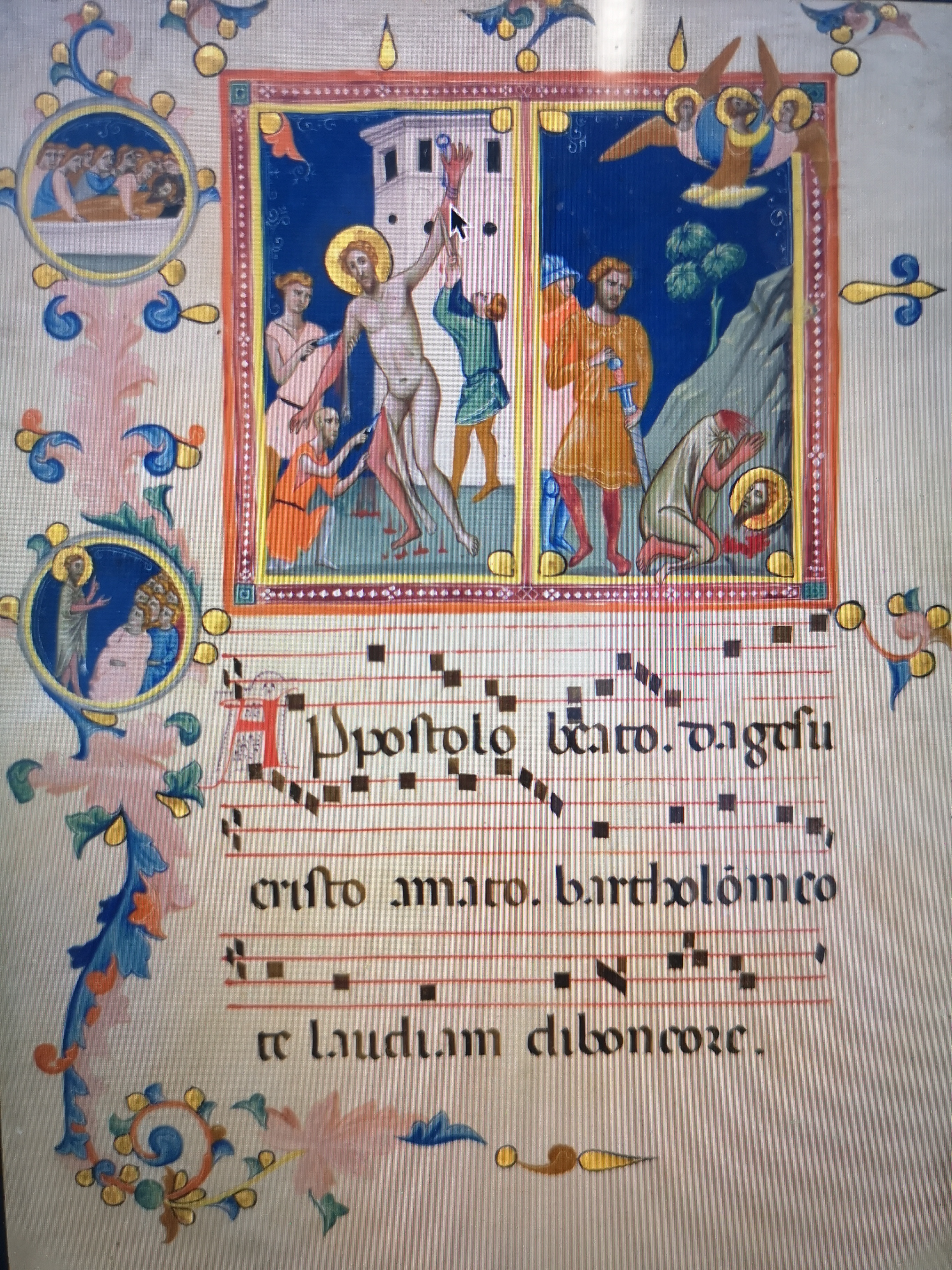 St Bartholomew Manuscript Leaf with the Martyrdom of Saint Bartholomew, from a ‘Laudario’, c.1340 Florence